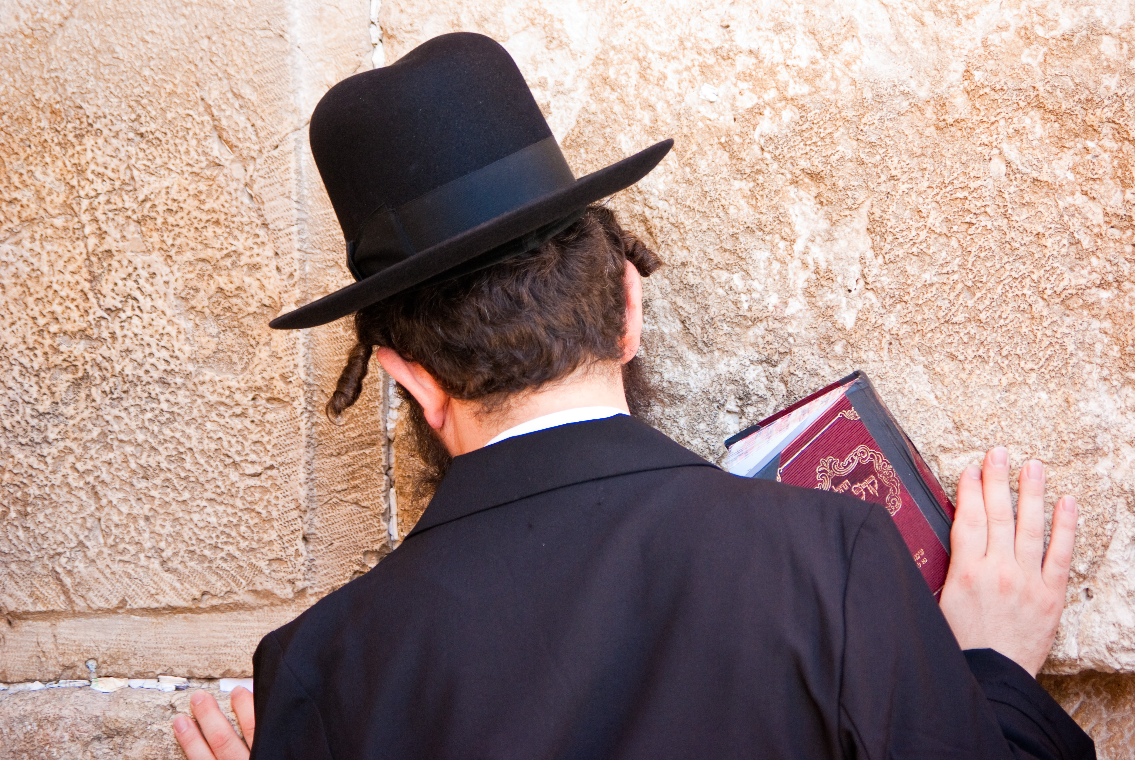 Western Wall